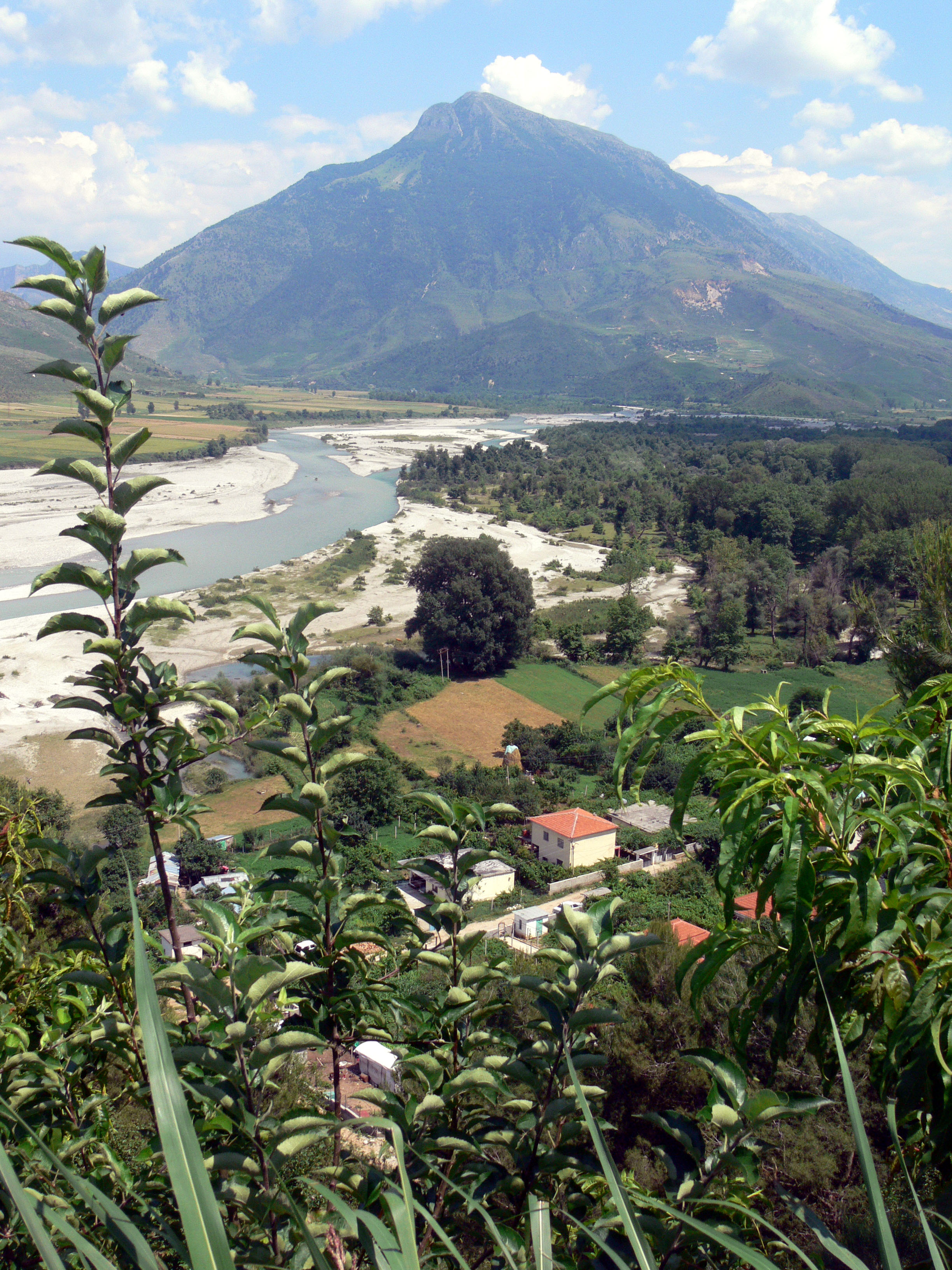 River Vjosa